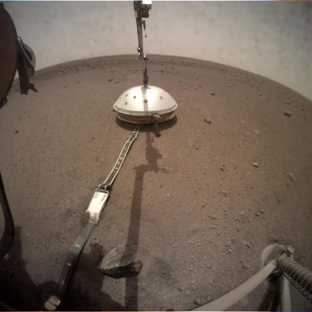 PIA22959: InSight Deploys its Wind and Thermal Shield NASA's InSight lander deployed its Wind and Thermal Shield on Feb. 2, 2019 (sol 66). The shield covers InSight's seismometer, which was set down onto the Martian surface on Dec. 19, 2018. This image was taken by the Instrument Deployment Camera on the lander's robotic arm. JPL manages InSight for NASA's Science Mission Directorate. InSight is part of NASA's Discovery Program, managed by the agency's Marshall Space Flight Center in Huntsville, Alabama. Lockheed Martin Space in Denver built the InSight spacecraft, including its cruise stage and lander, and supports spacecraft operations for the mission. A number of European partners, including France's Centre National d'Études Spatiales (CNES) and the German Aerospace Center (DLR), are supporting the InSight mission. CNES and the Institut de Physique du Globe de Paris (IPGP) provided the Seismic Experiment for Interior Structure (SEIS) instrument, with significant contributions from the Max Planck Institute for Solar System Research (MPS) in Germany, the Swiss Institute of Technology (ETH) in Switzerland, Imperial College and Oxford University in the United Kingdom, and JPL. DLR provided the Heat Flow and Physical Properties Package (HP3) instrument, with significant contributions from the Space Research Center (CBK) of the Polish Academy of Sciences and Astronika in Poland. Spain's Centro de Astrobiología (CAB) supplied the wind sensors. For more information about the mission, go to